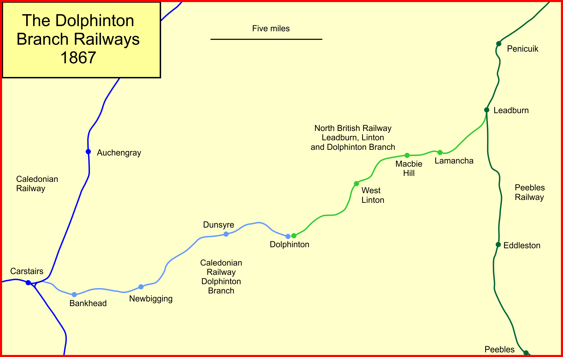 System map of the branch line railways to Dolphinton, Scotland, in 1857